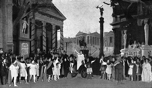 Nikolai Rimsky-Korsakov - Servilia - act 1, forum - decorations after a scetch by Konstantin Ivanov, 1902